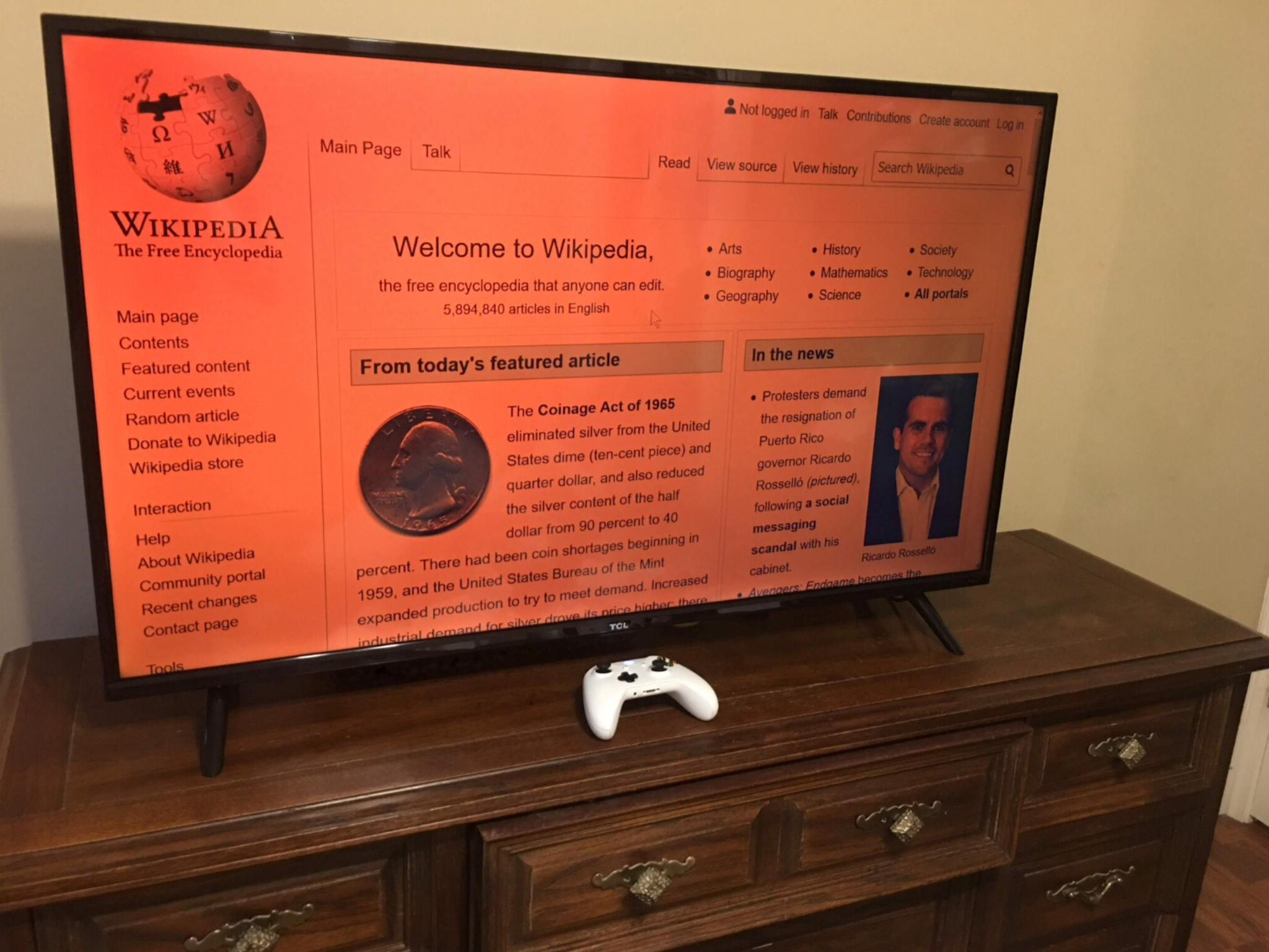 Depicted in this image is a TCL TV set on stand on a dresser, HDMI-connected to a Windows computer; the screen's blue light filter is on and the WP homepage is displayed on fullscreen FireFox. A Bluetooth-connected Xbox One controller is used as a remote input device for the computer, which uses the application Controller Companion so such is possible. Although all of the controls may be configured in any way, this setup enables the right analog stick to move the cursor (yes, it senses the nuances of the analog stick and moves the cursor accordingly), the right/left triggers are mapped to the left/right mouse clicks, and RB has been linked to the keyboard shortcut Windows key PLUS + (zoom in) and LB linked to the keyboard shortcut Windows key PLUS - (zoom out). Sadly, it is currently not possible to make the left analog stick able to navigate the screen when zooming.